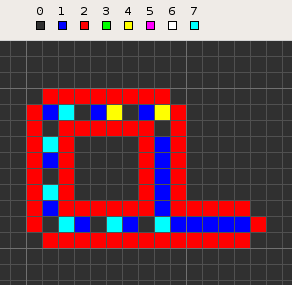 Langton's loop, showing the state value for each colour.